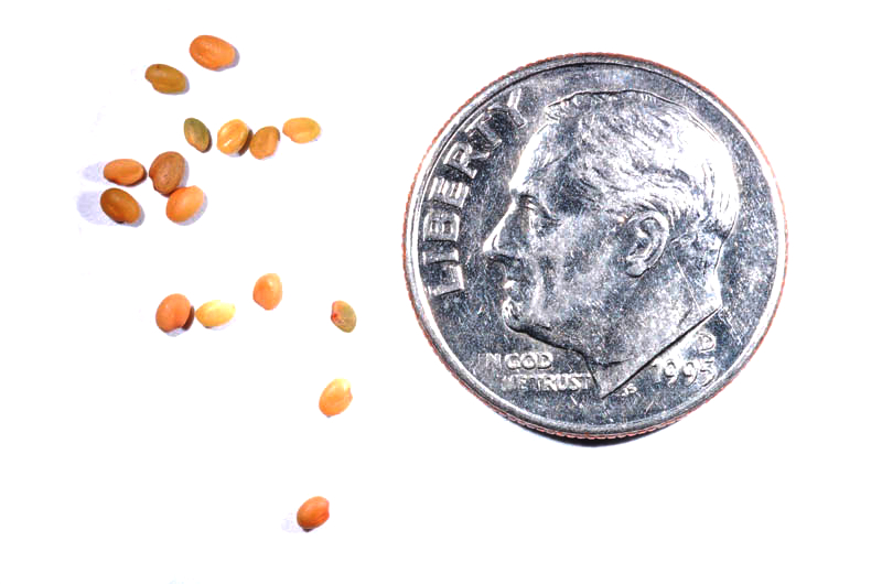 Seeds of Melilotus albus (white sweet clover) next to a U.S. dime for scale.